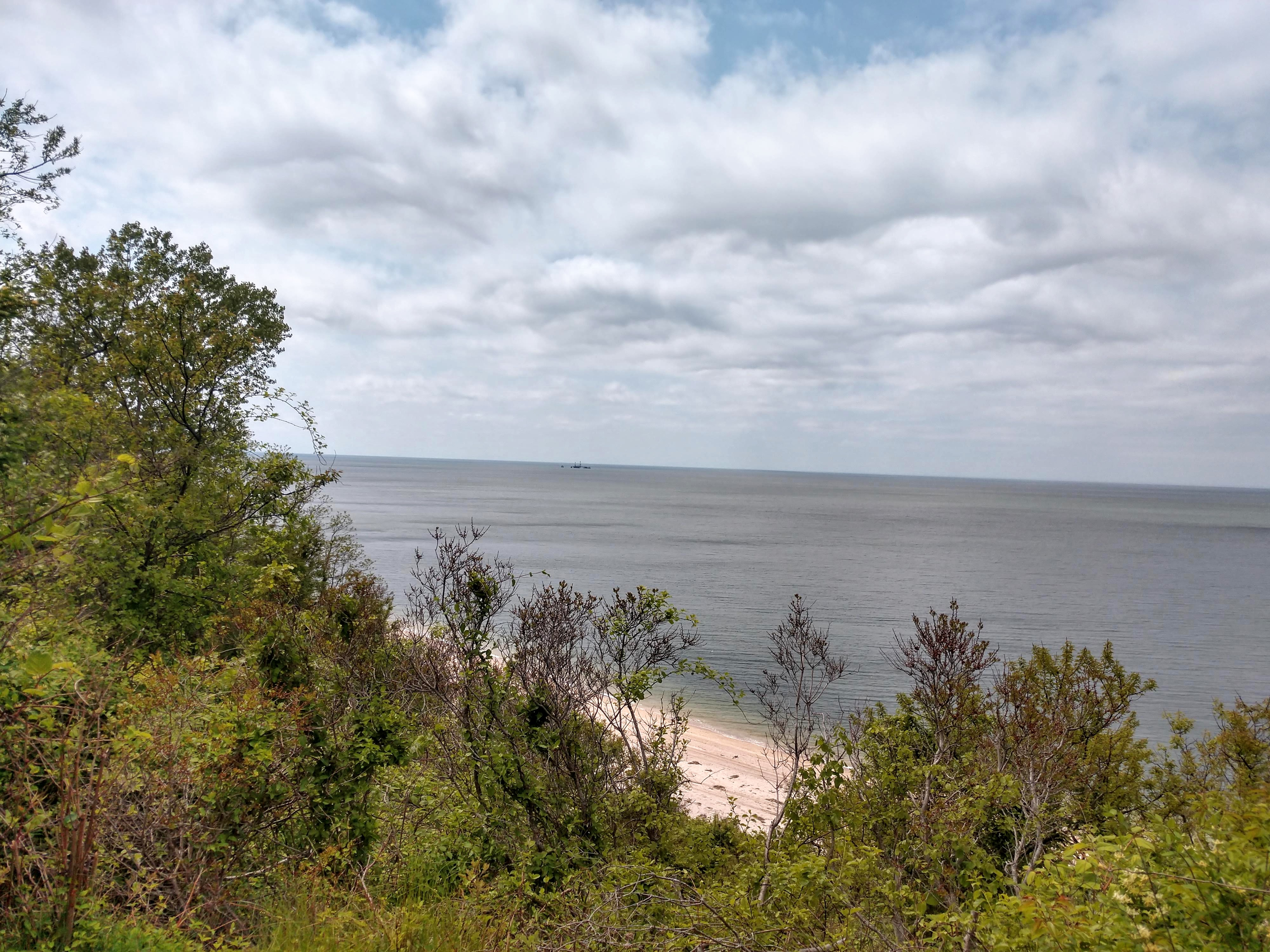 This is a photo from the heights of Hallock State Park, Long Island. The CT shoreline can be seen in the distance.